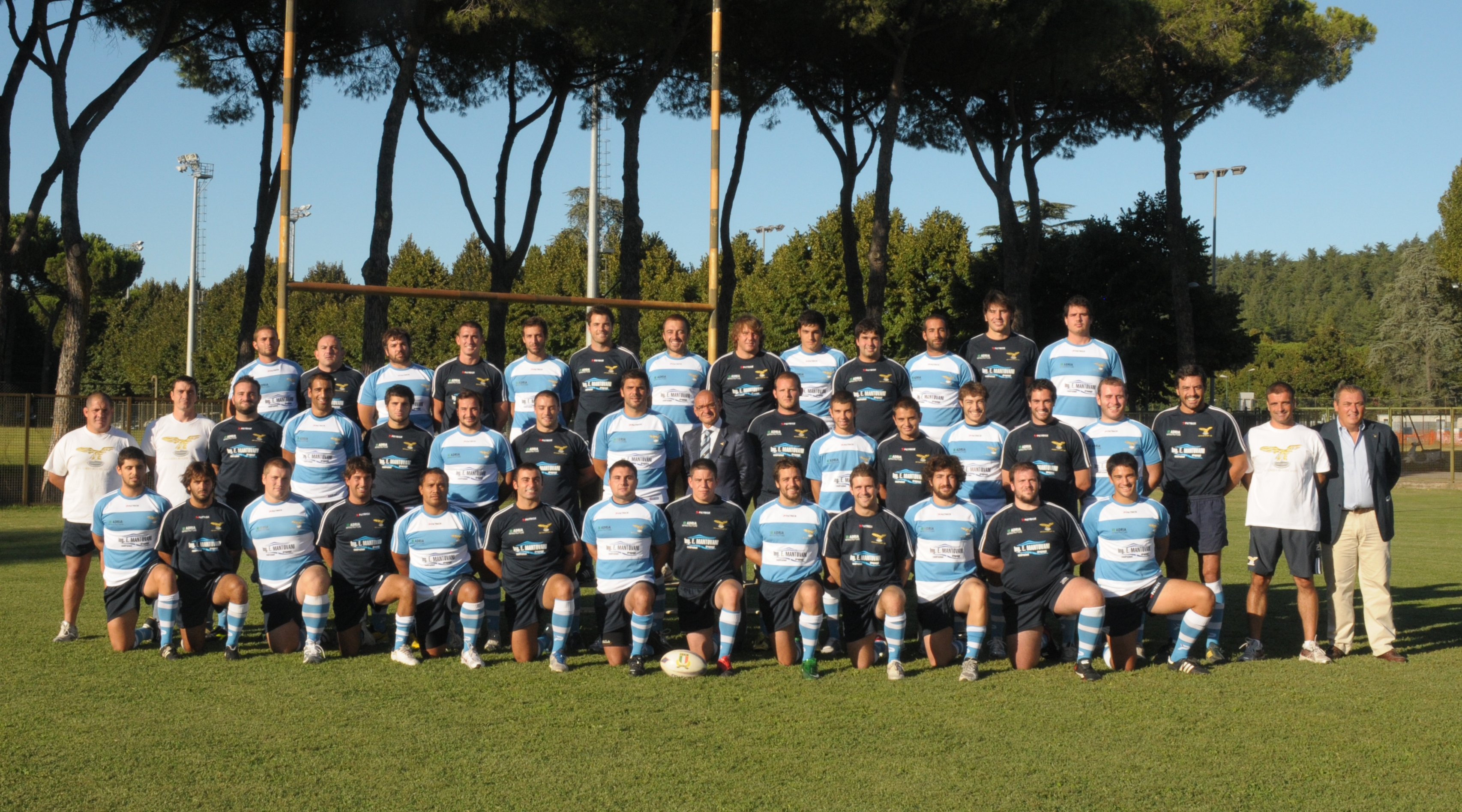 The squad of S.S. Lazio at the 2010-11 Eccellenza (élite rugby union Italian championship)